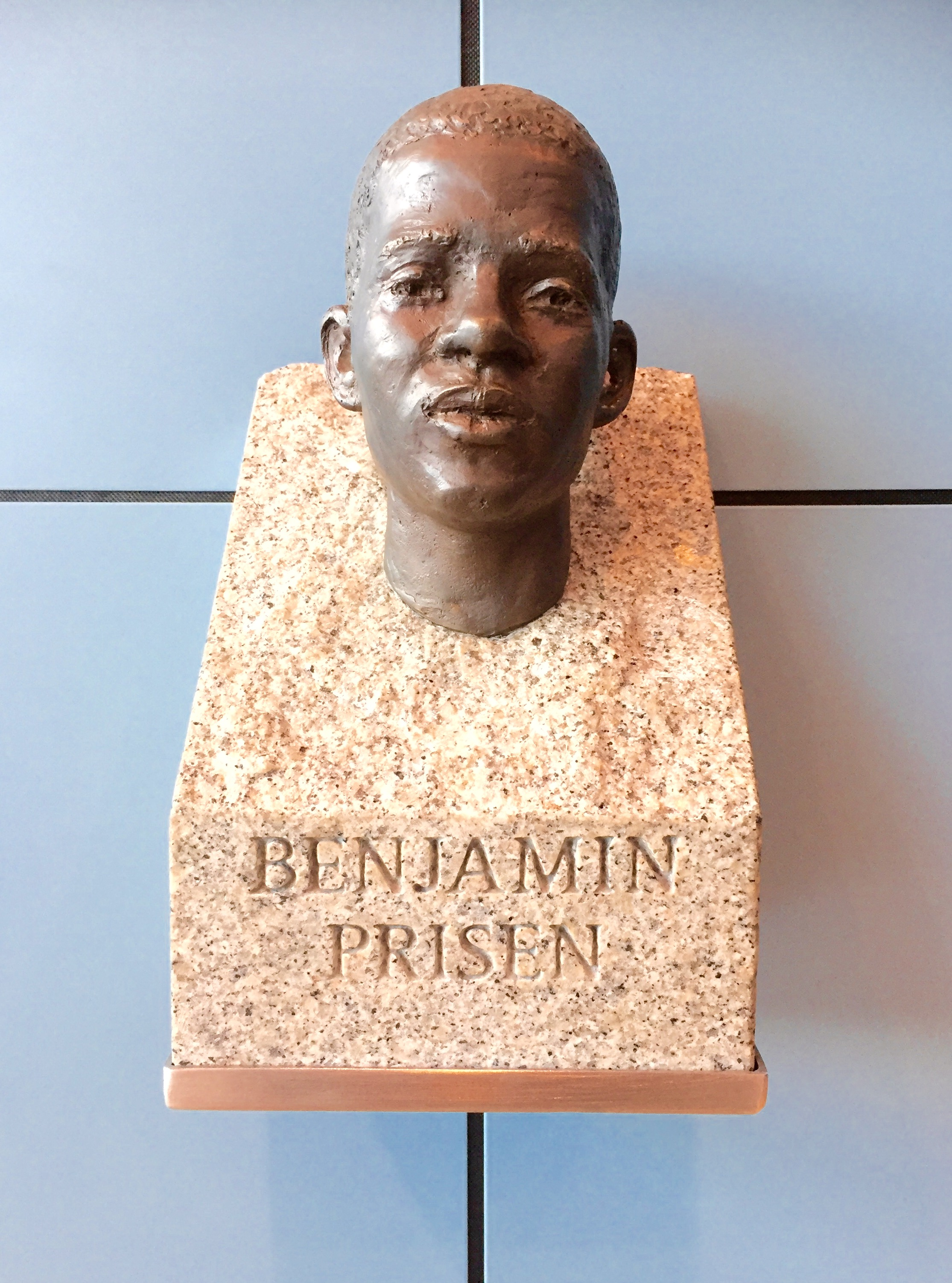 The Benjamin Prize (no: Benjaminprisen) on the wall of Kuben yrkesarena in Oslo. Bust by Ivar Sjaastad